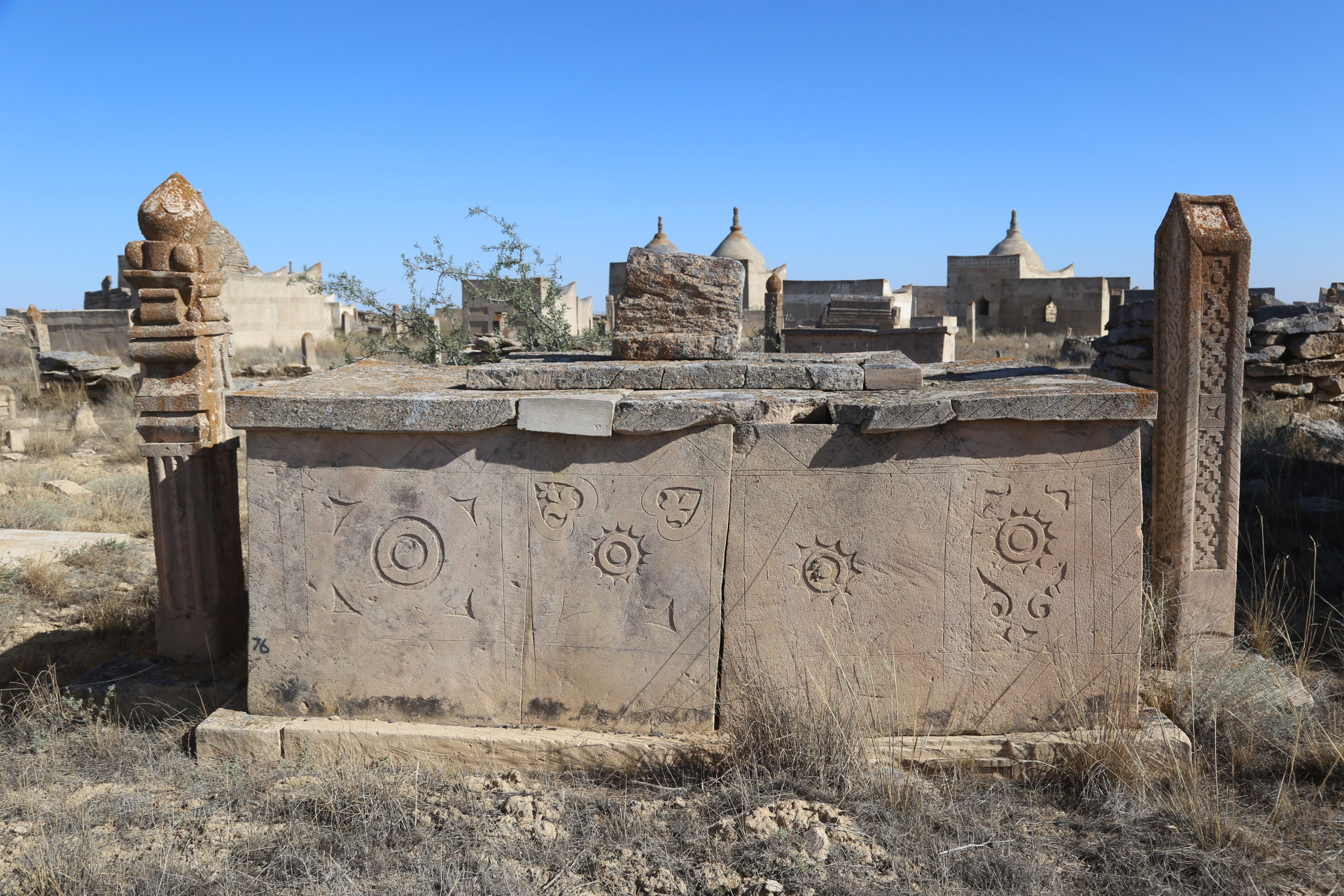 Sisem-Ata